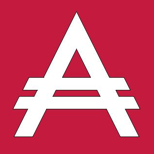 Proposal for a currency symbol for a monetary union of the American continent . An "A" for Americas, capital letter, with two horizontal dashes.